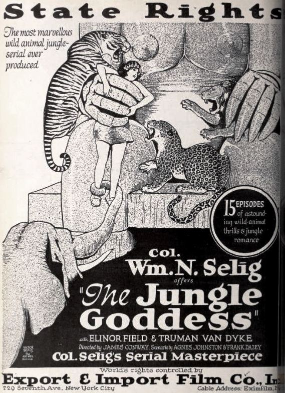 Advertisement for the American adventure film serial The Jungle Goddess (1922) with Elinor Field, on page 18 of the January 28, 1922 Exhibitors Herald.